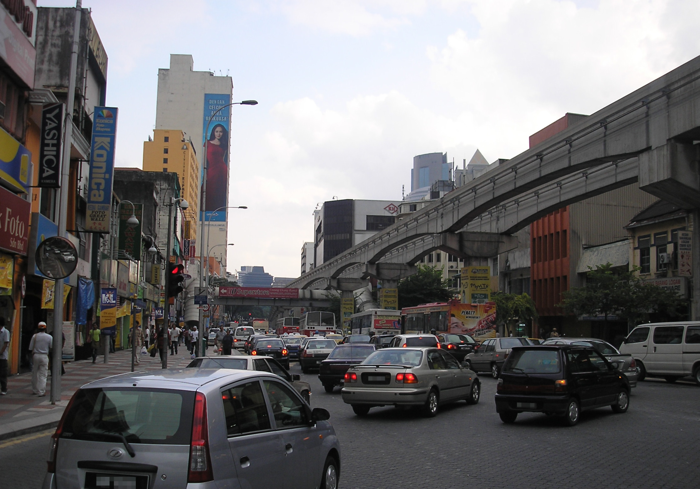 The district of Chow Kit in Kuala Lumpur, Malaysia, as seen facing the south on Jalan Tuanku Abdul Rahman (previously Batu Road).